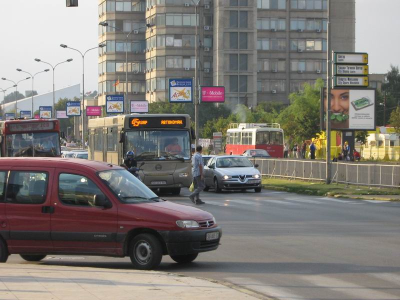 A new Sanos S-213 on the streets of Skopje.